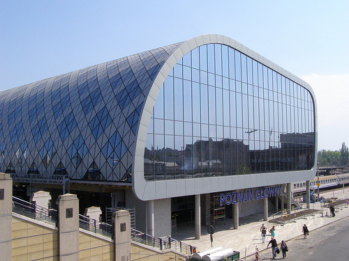 POZSTATION